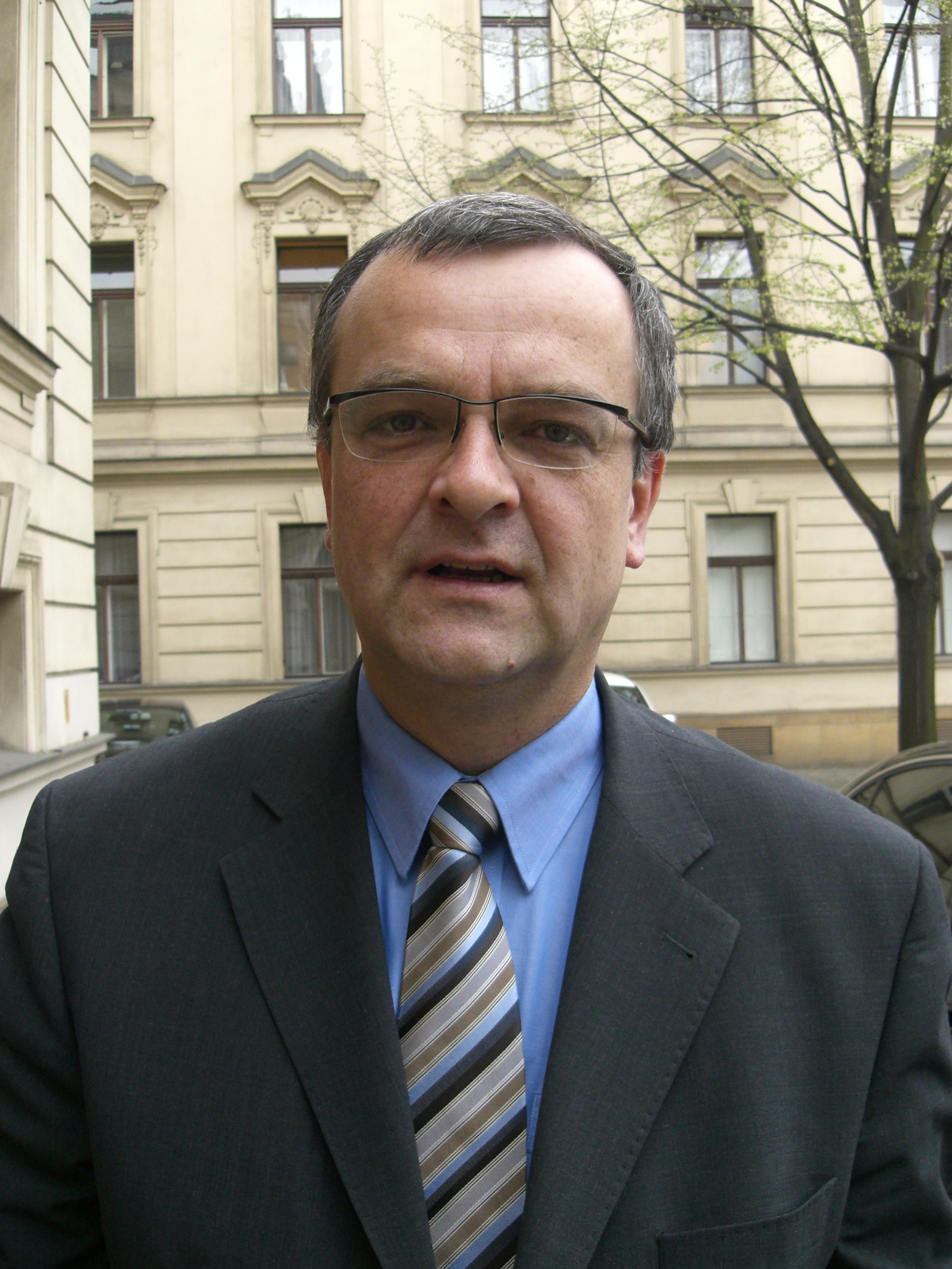 Minister Miroslav Kalousek of the czech goverment before session, Czech Republic.